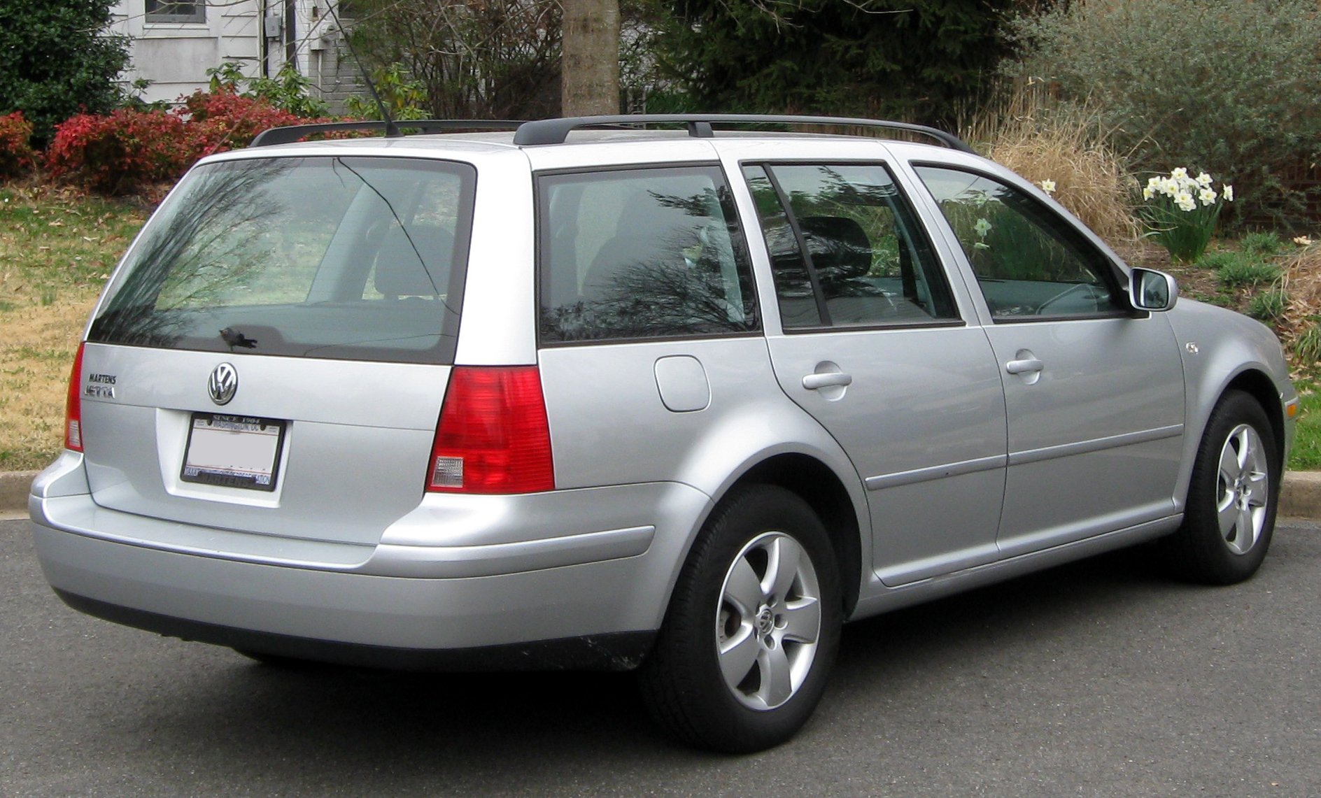 2002-2006 Volkswagen Jetta photographed in Washington, D.C., USA.